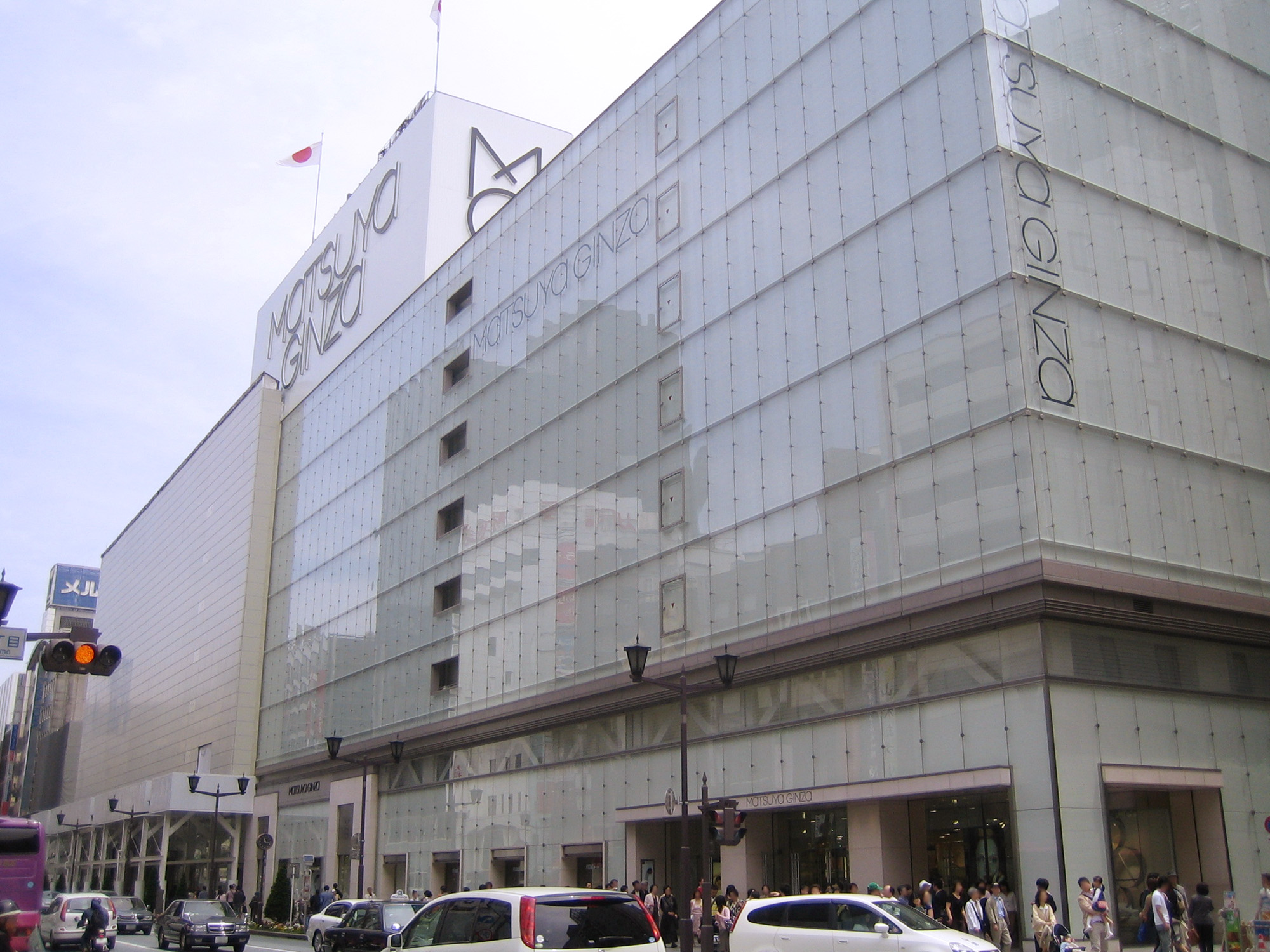 Matsuya Ginza (松屋銀座店), in Chuo, Tokyo, Japan